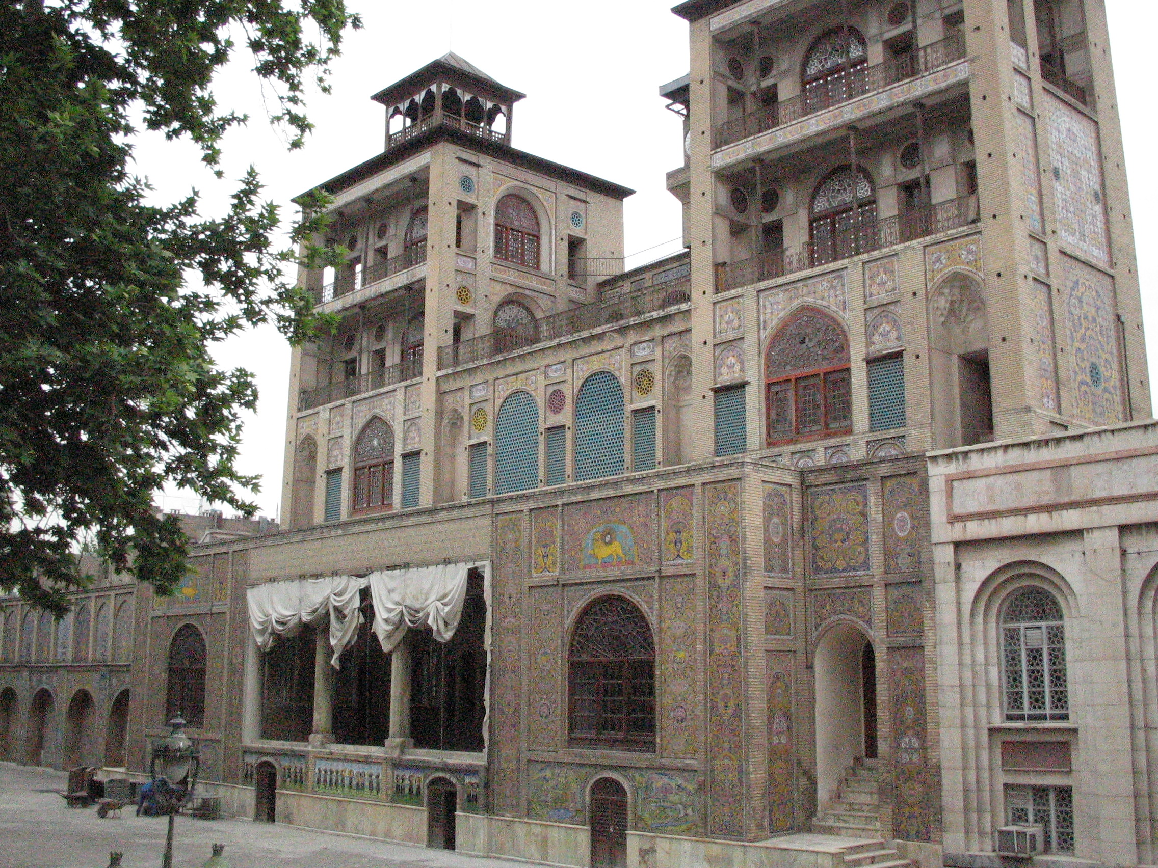 Shams-ol Emareh facade, in Golestan Palace Compound, Tehran, Iran. This was the First Iron ( steel) Building In Tehran, Iran, During Qajar, Built By Nasserdin Shah.